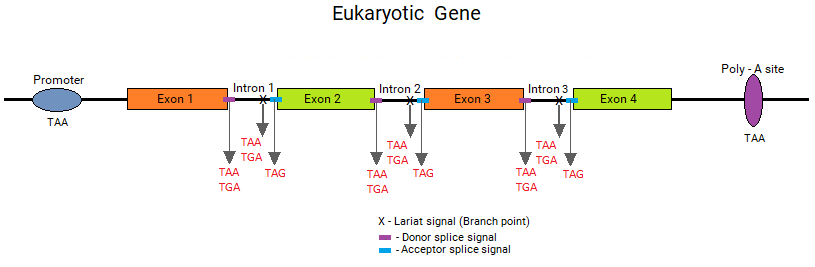 Stop codons occur as key parts of all important genetic elements in eukaryotic genes.